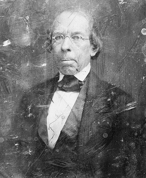 William Upham